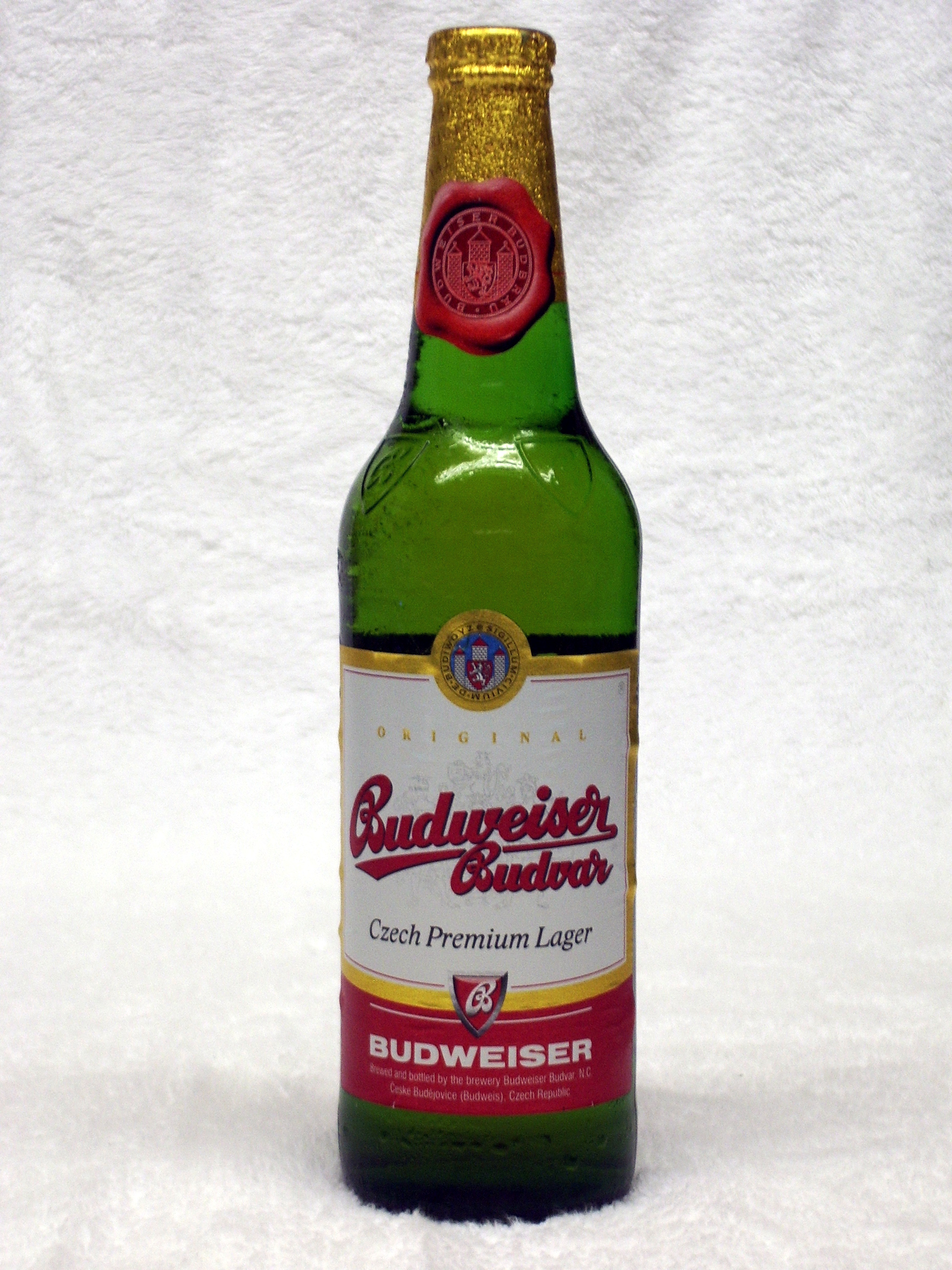 500ml bottle of Budweiser Budvar, as marketed in the UK.